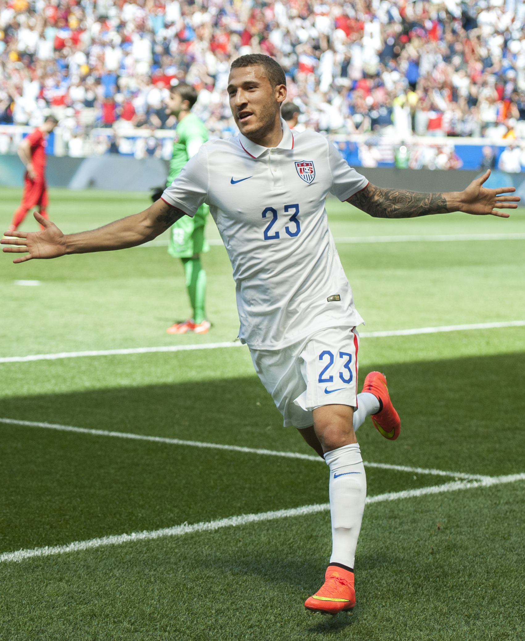 This file has been extracted from another file: Fabian Johnson celebrates goal vs Turkey 2014 (15259946016).jpg